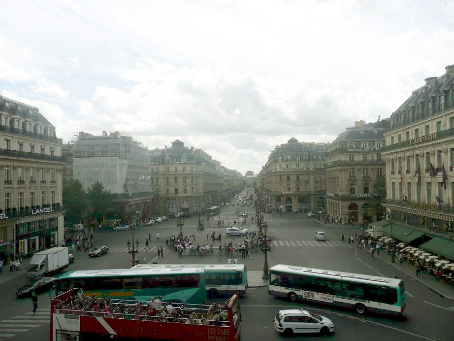 View of Paris from the Opera Garnier